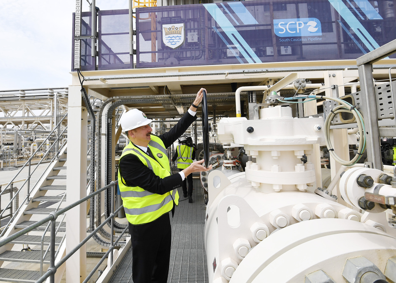 Ilham Aliyev attended official opening ceremony of Southern Gas Corridor. Sangachal Terminal